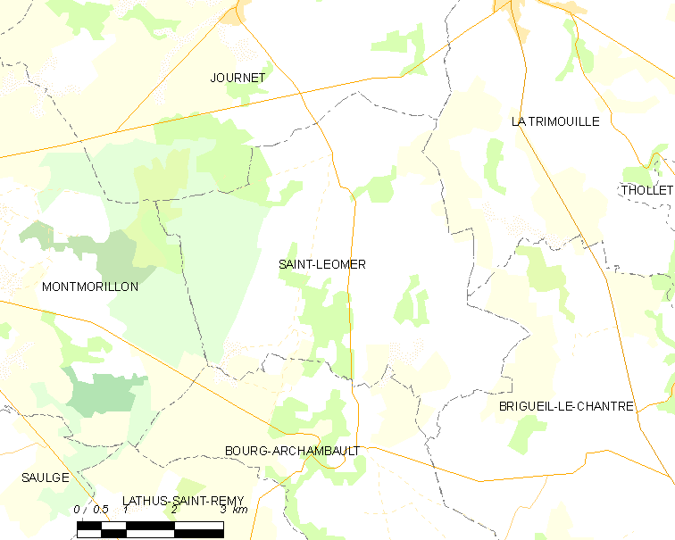 Map of French municipality Saint-Léomer